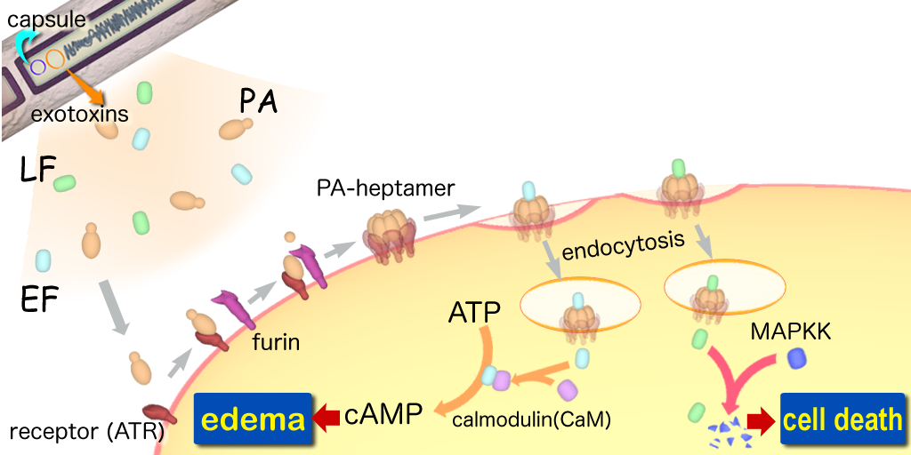 Action of anthrax exotoxins with English annotation